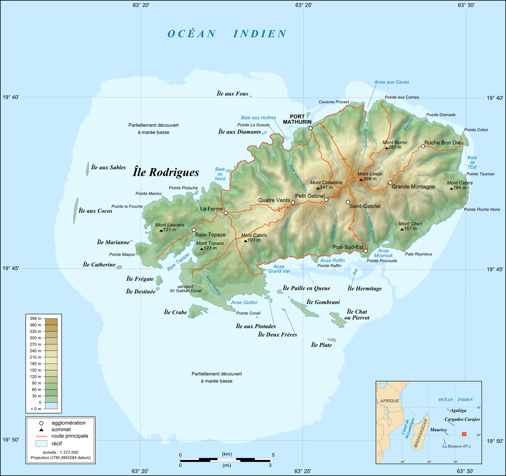 Topographic map in French of Rodrigues Island, Mauritius Note : for translation purpose, use the SVG version Scale : 1:372,000 (accuracy : about 93 m) ; Printing size : 7.79 x 7.33 cm